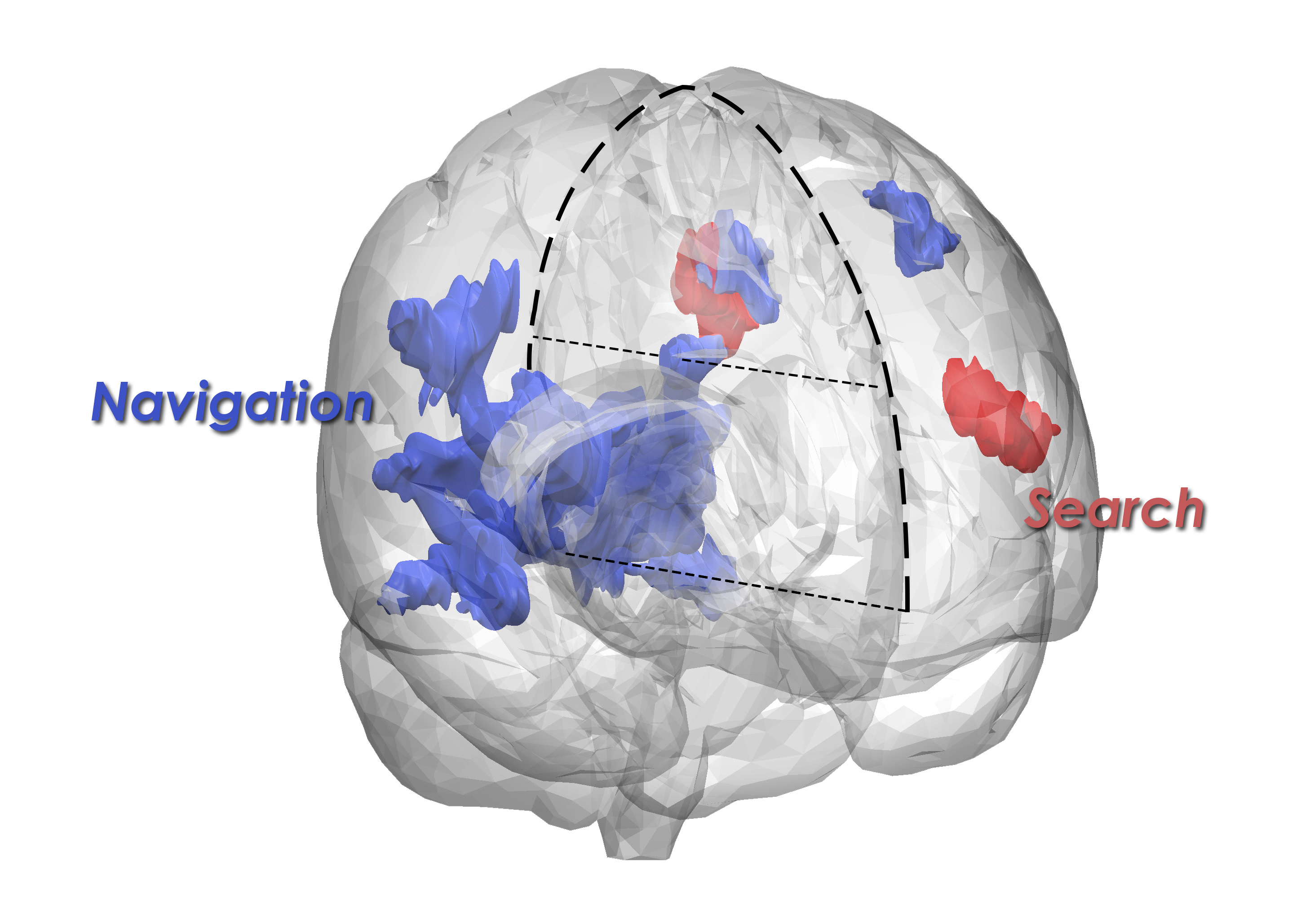 Figure 2: A 3D model illustrating bilateral posterior regions activated for folder navigation (blue), and left inferior frontal activation for search (red).